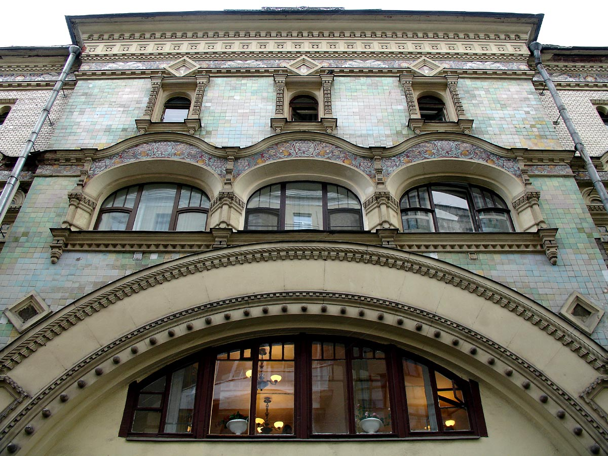 Savvinskoye Podvorie, 6 Tverskaya Street, Moscow, Russia. This building was moved from its original site in 1930s and is now completely enclosed inside a stalinist apartment block and Moscow Art Theatre buildings